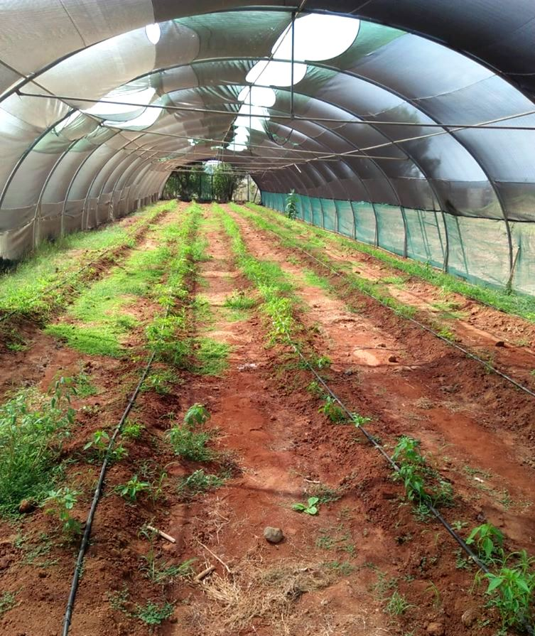 Photo of Damerjog farm.